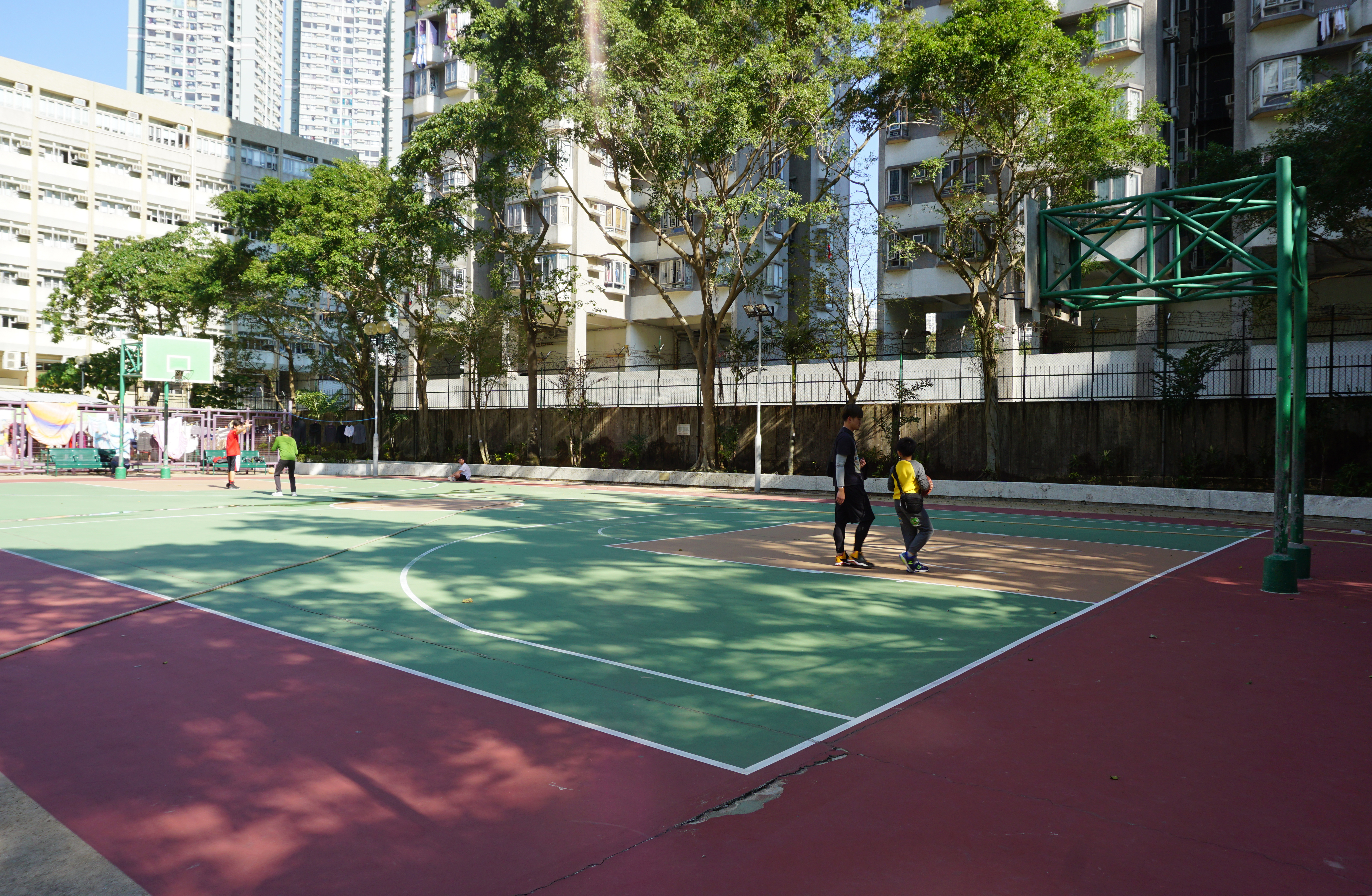 Lok Wah South Estate in Nagu Tau Kok, Hong Kong.